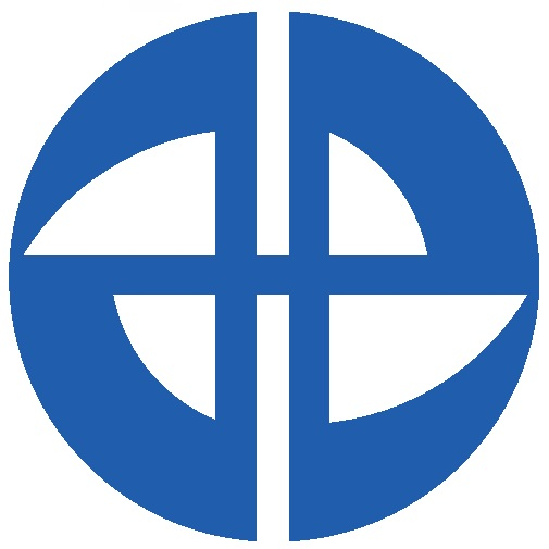 Miyoshi Aichi chapter